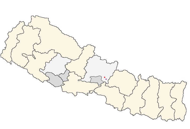 Ethnologue locations in Nepal: (west) Dang and Pyuthan districts (dark grey) within Rapti Zone; (center) Tanahu District within Gandaki Zone. location: red. WALS location: purple (Gorkha District)